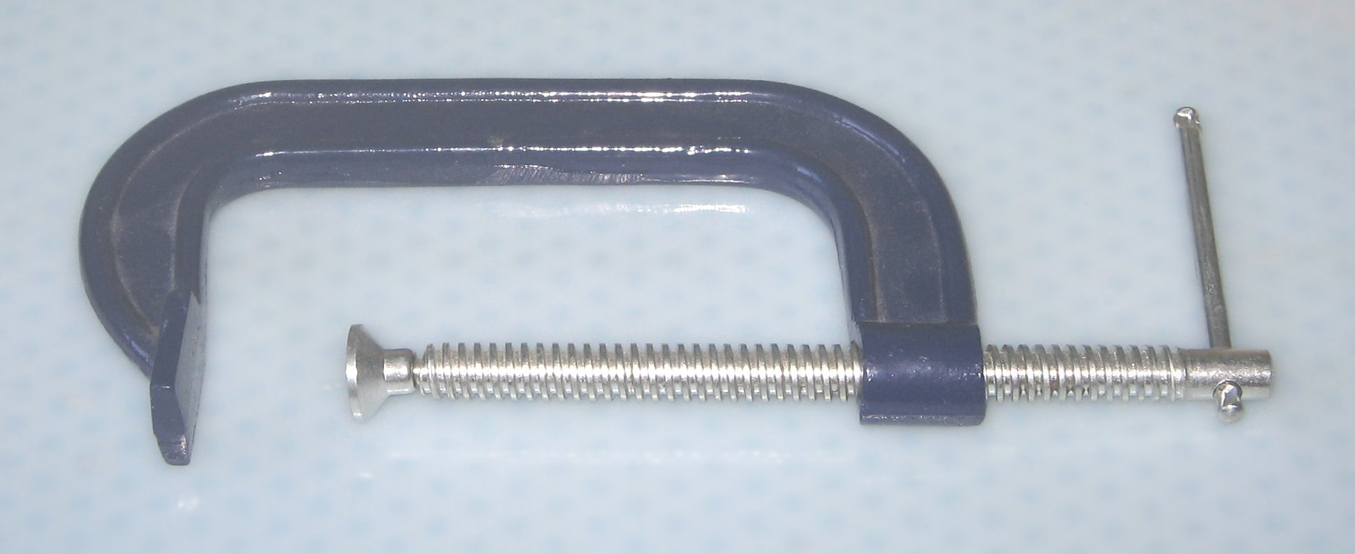 C-clamps